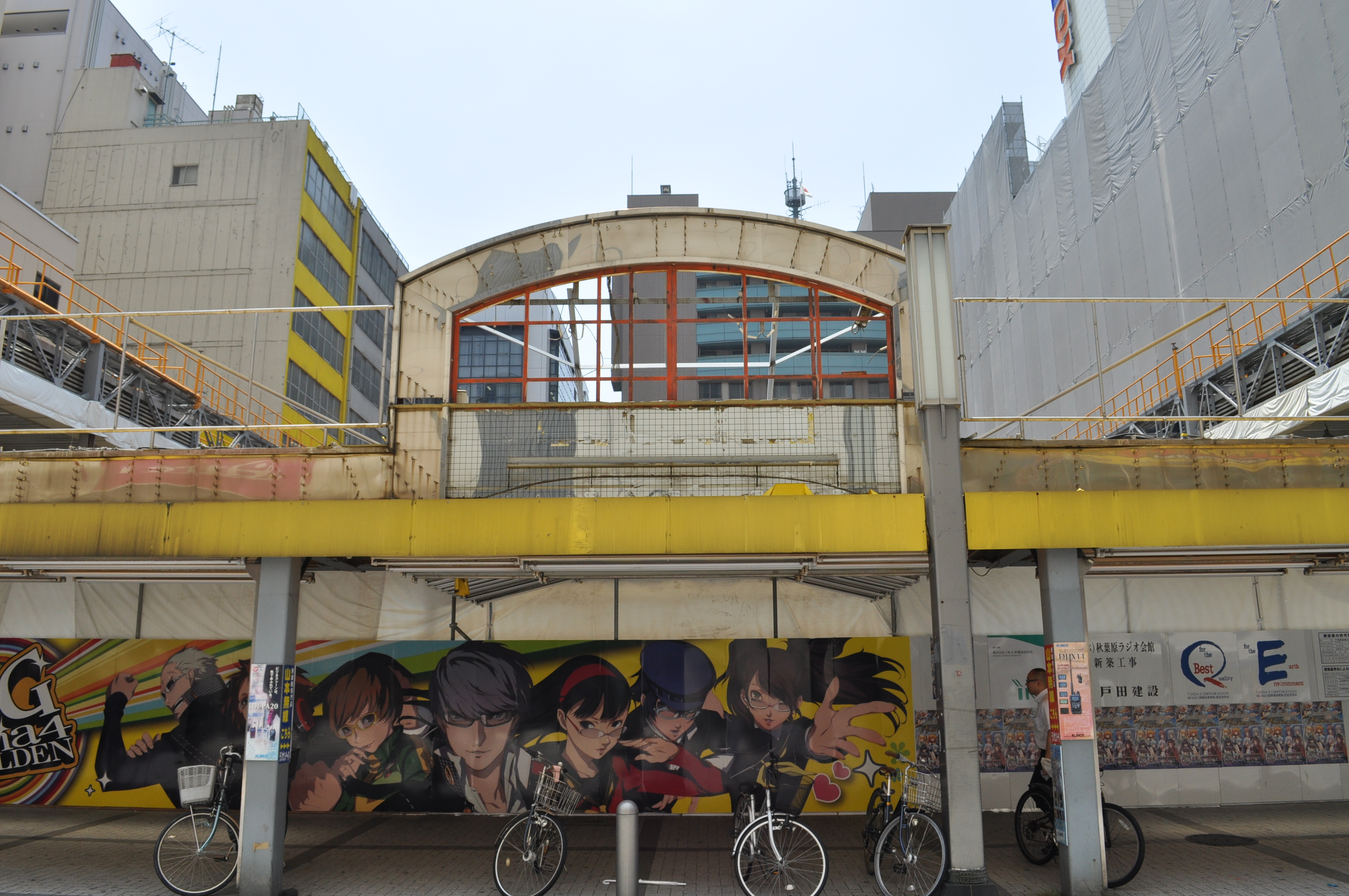 Demolished Radio holl